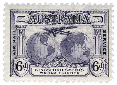 Postage stamp, Australia, 1931: commemorative issue for pioneer aviator Sir Charles Kingsford Smith (1837–1935).